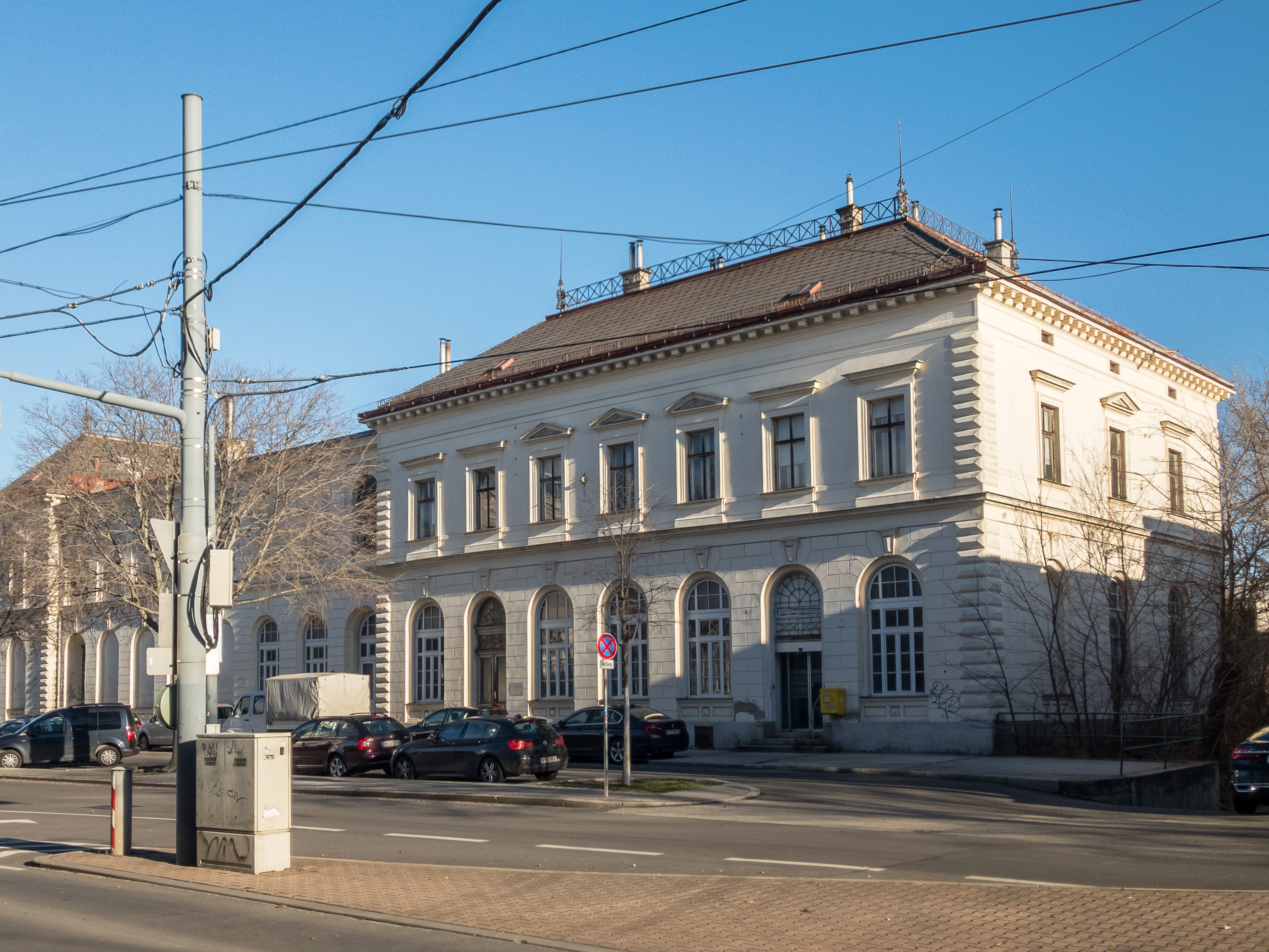 Nordwestbahnstraße in Vienna / Brigittenau / Austria / EU. Along the road three posters. Blue sky, light clouds, autumn mood.